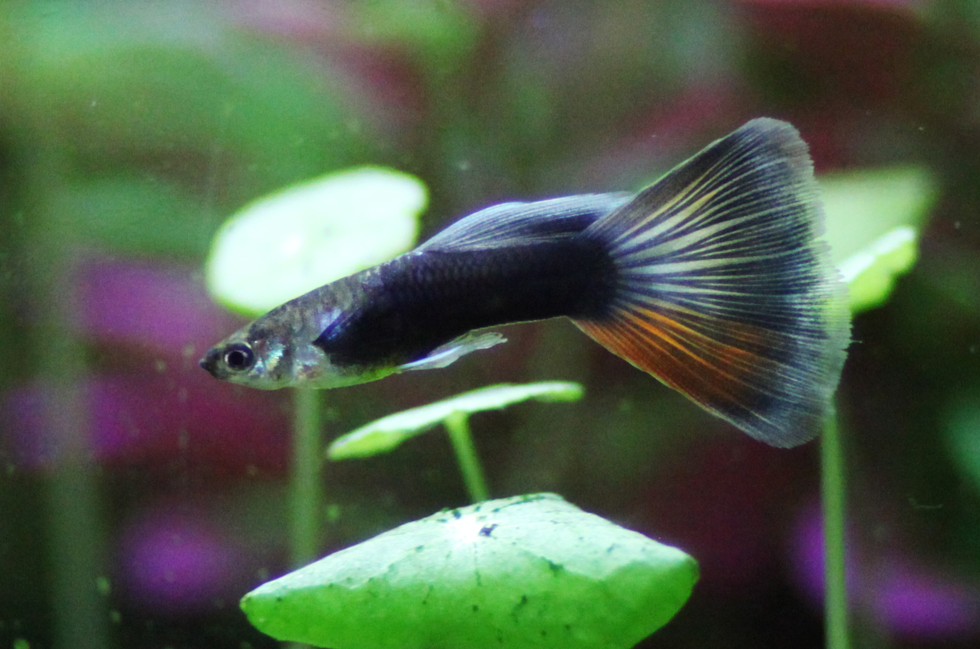 Guppy male moscow (Poecilia reticulata)